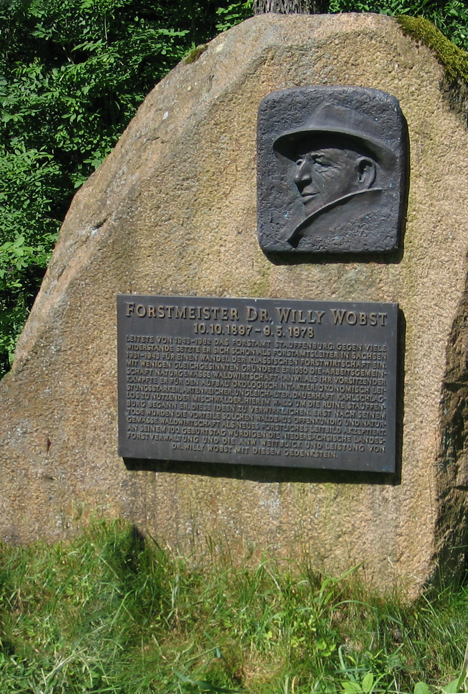 Memorial stone 100. birthday Seesen-Dr. Willy Wobst